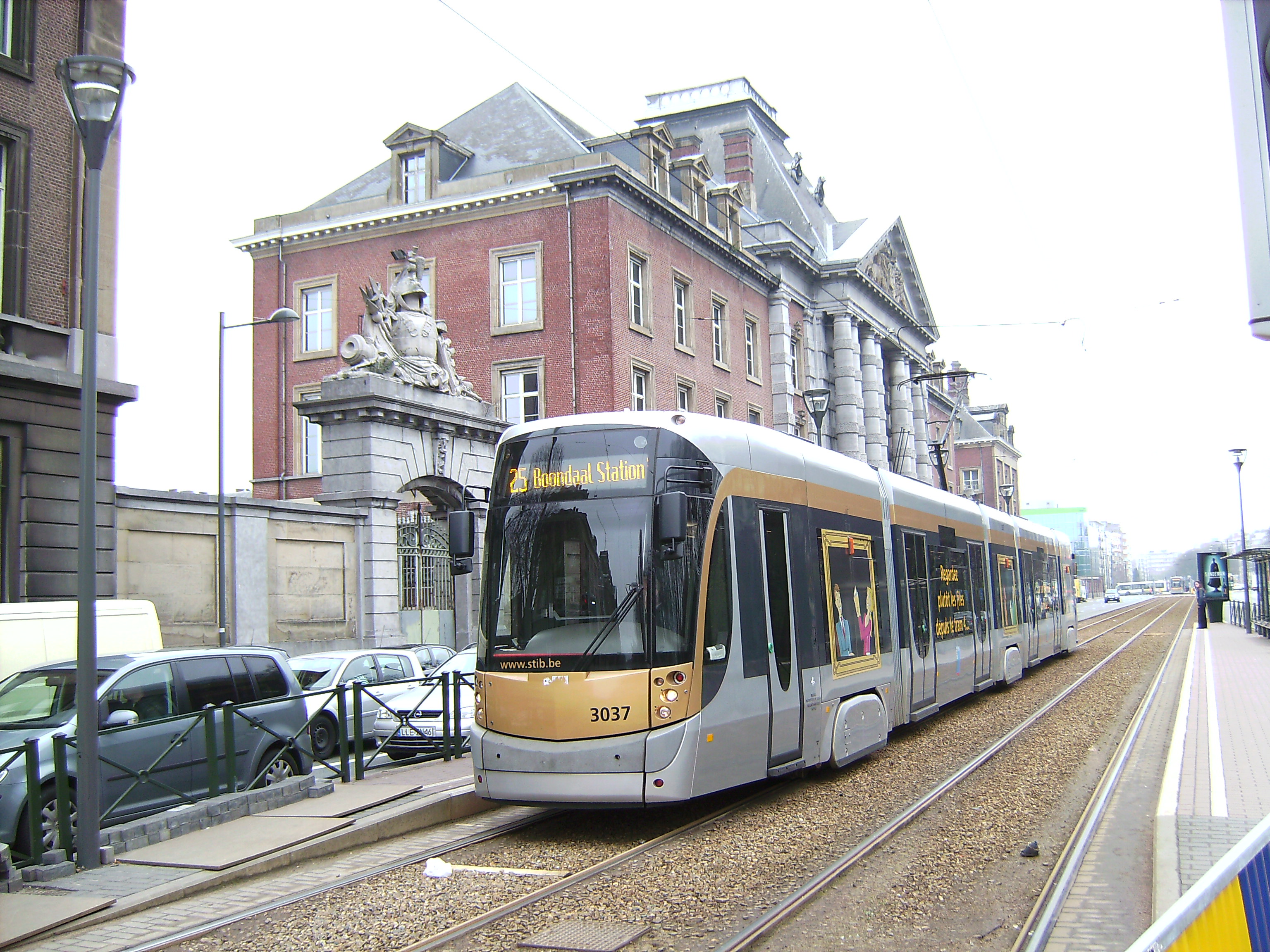 Tram No 3037 (Bombardier Flexity Outlook Cityrunner) in Brussels, at the tram stop Tweede Lanciers/Deuxième Lanciers, line 25.